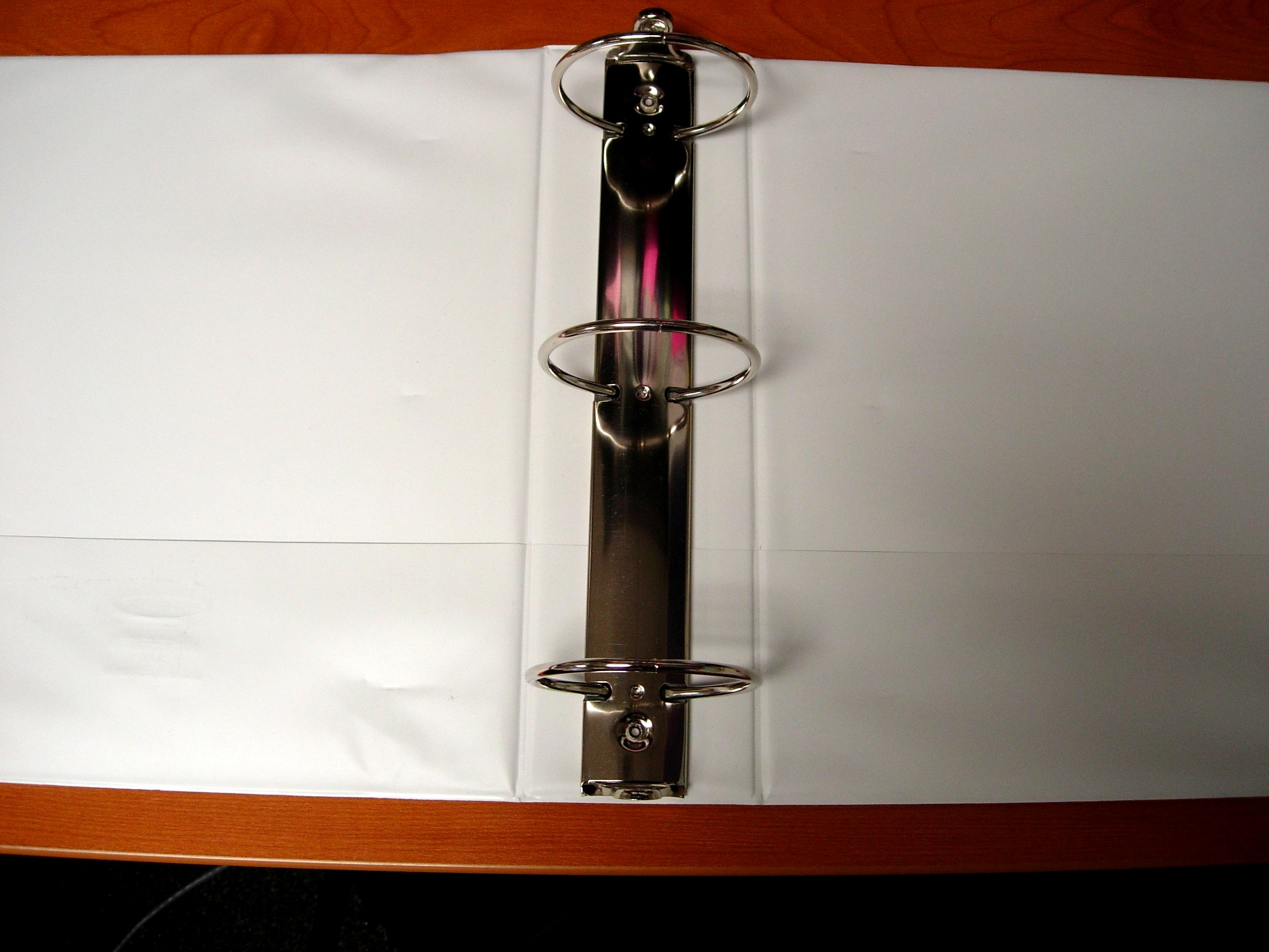 3 ring binder (opened)